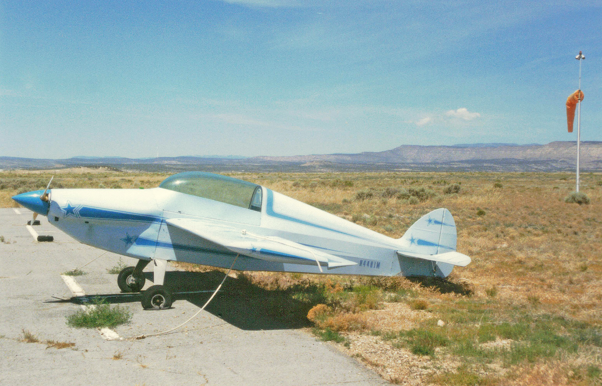 Duchesne Municipal Airport Utah in 1990